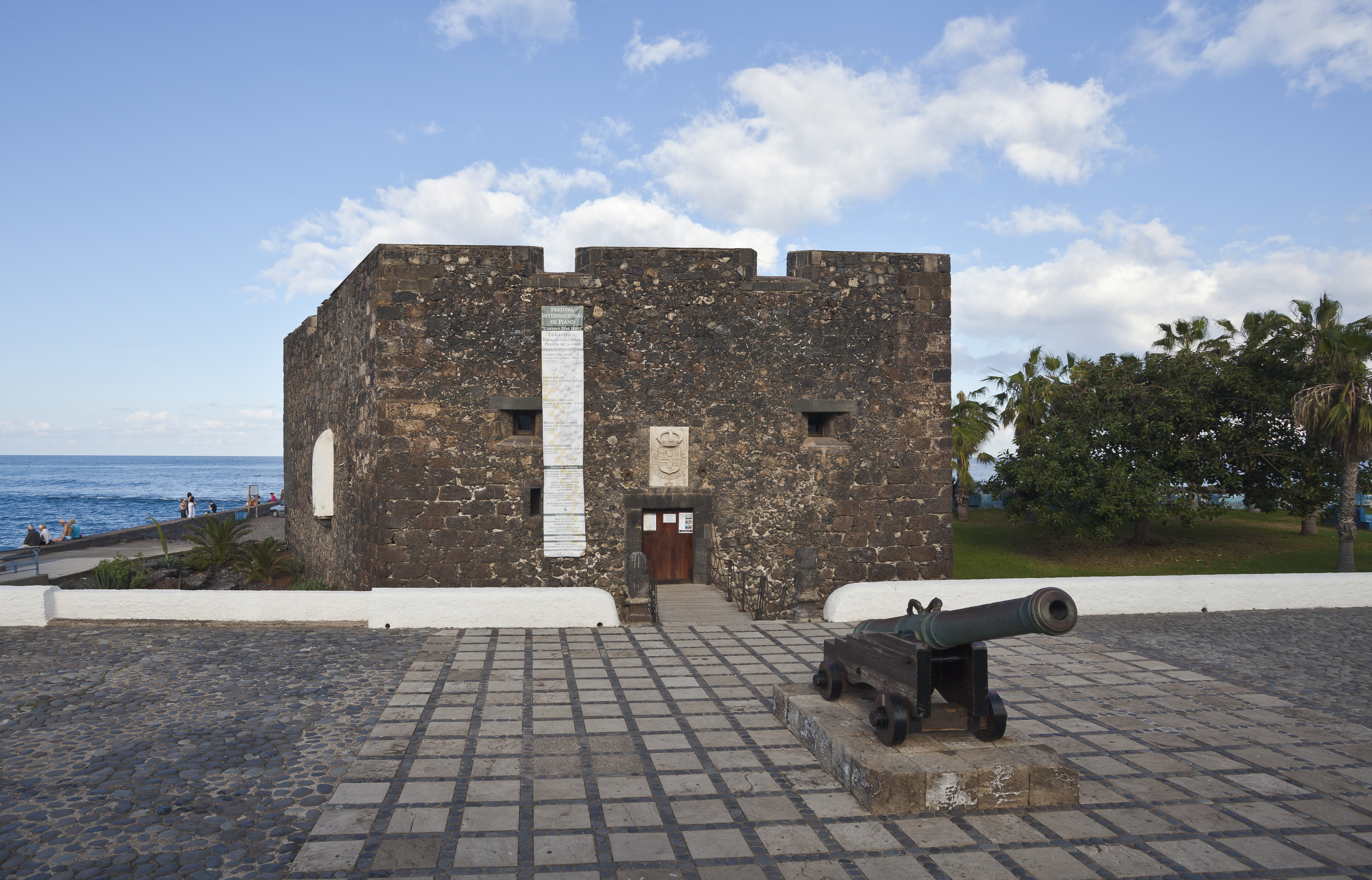 Castle of San Felipe, Puerto de la Cruz, Tenerife, Spain